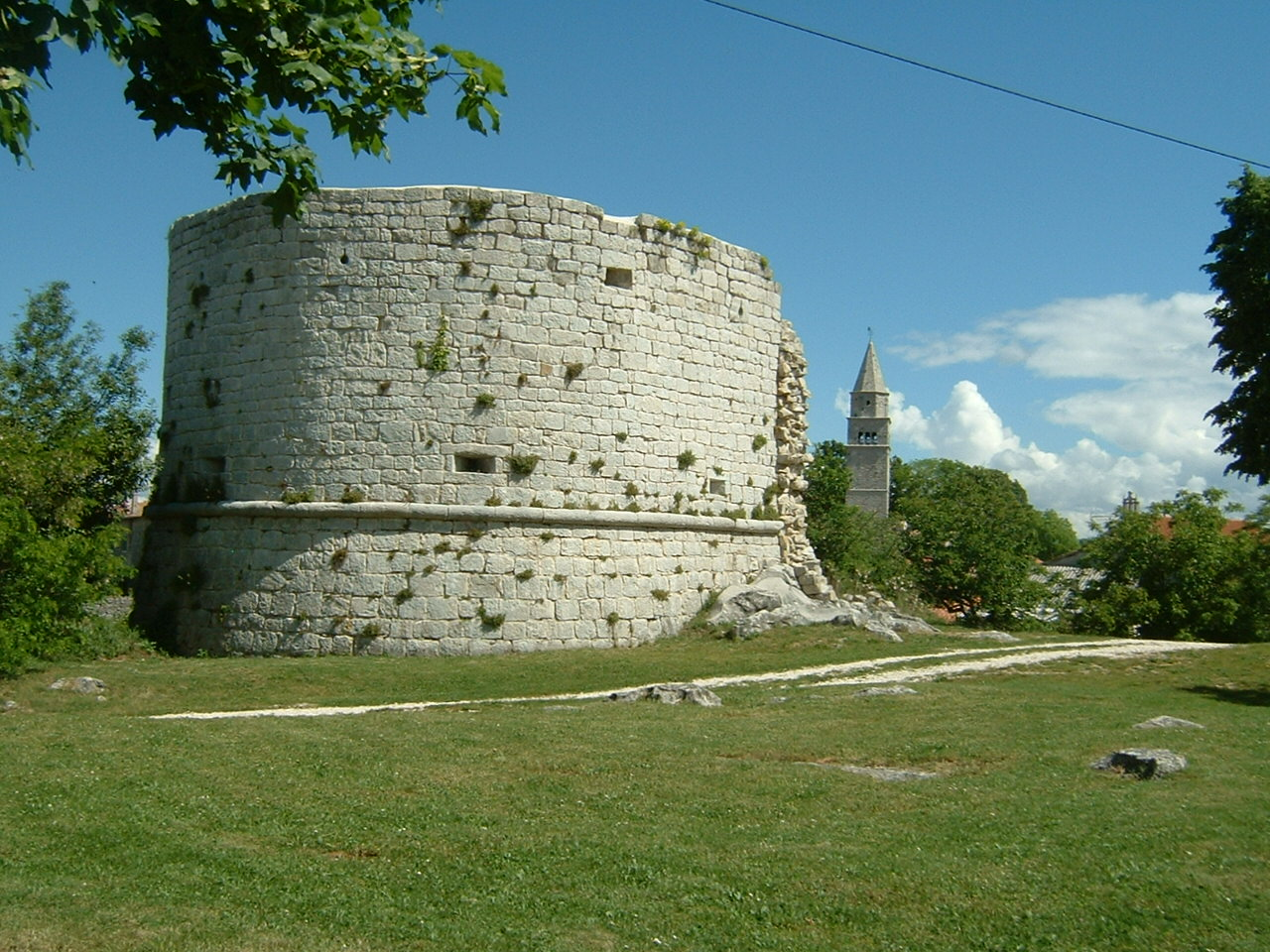 A defence tower, Gračišće, Istria, Croatia